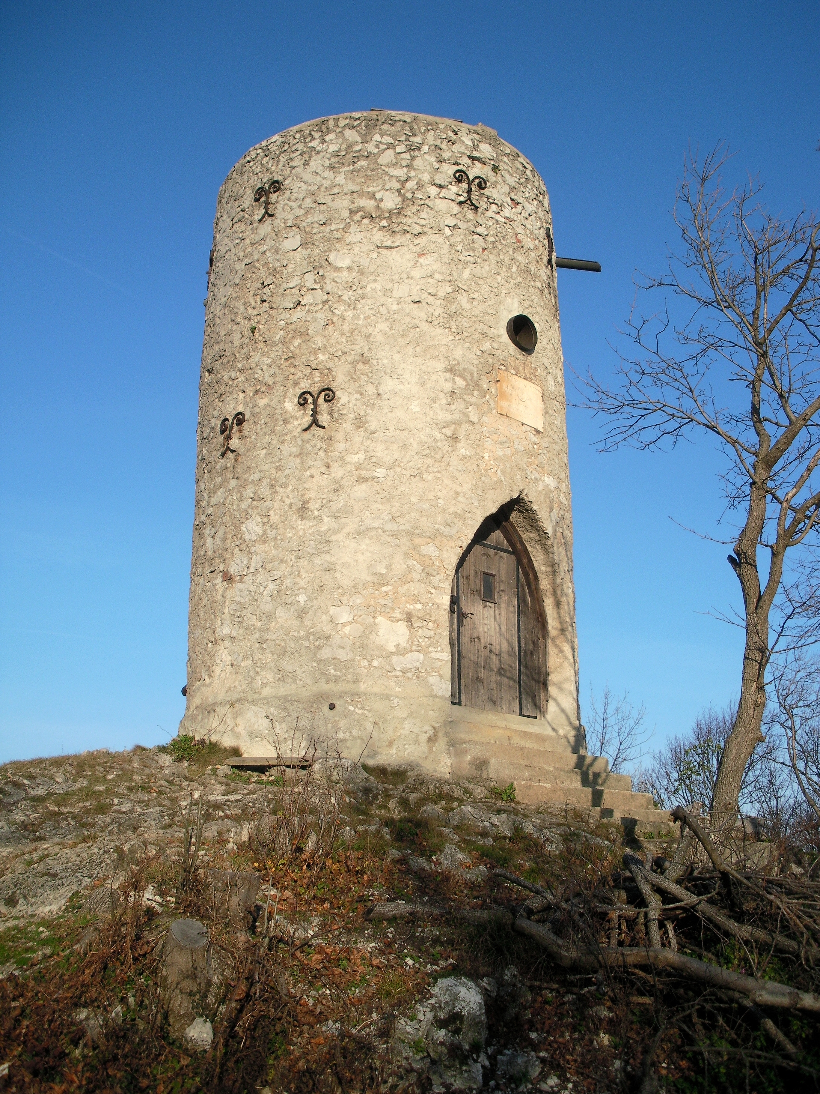 Anninger Wilhelmswarte